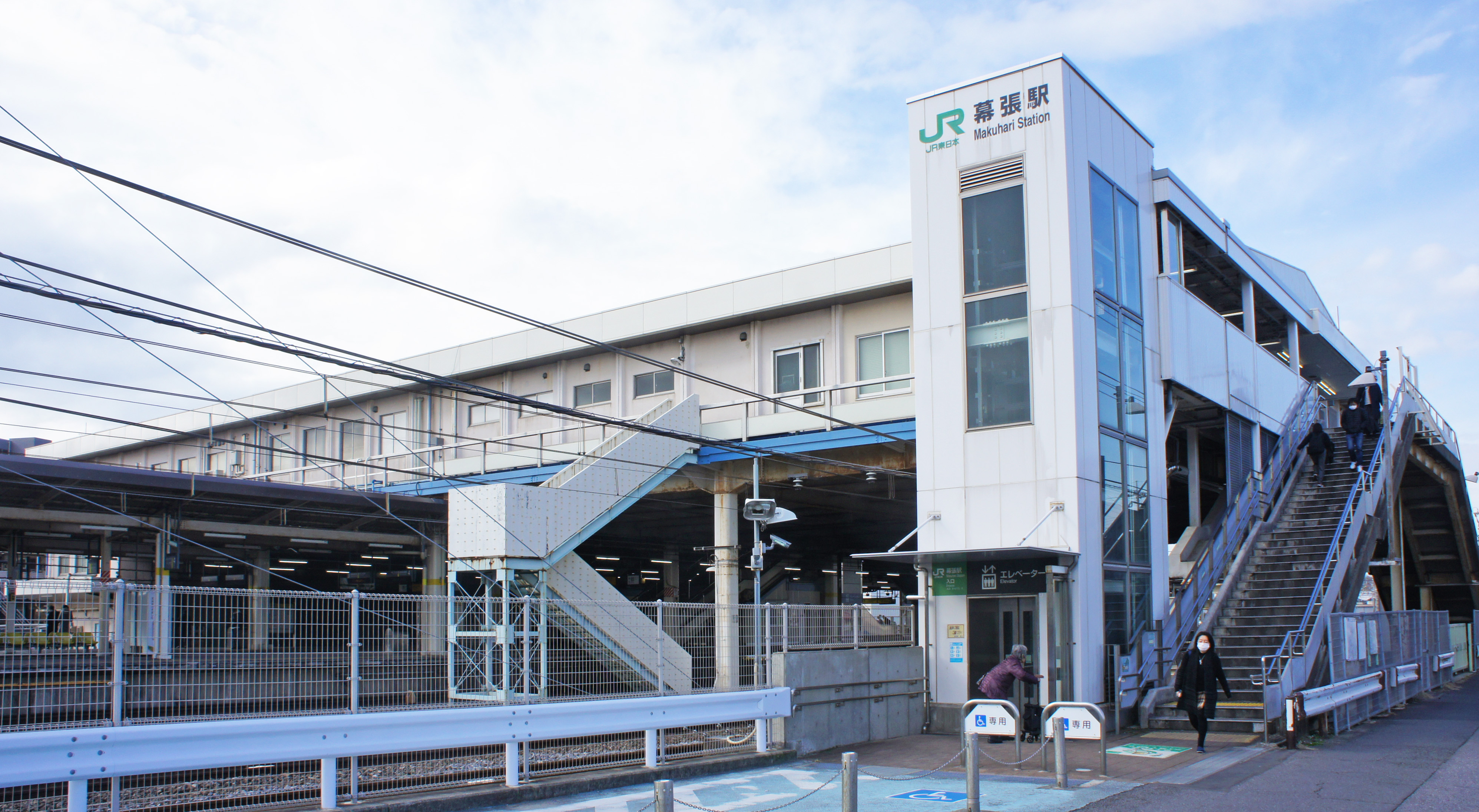 North Exit of JR Sobu-Main-Line Makuhari Station